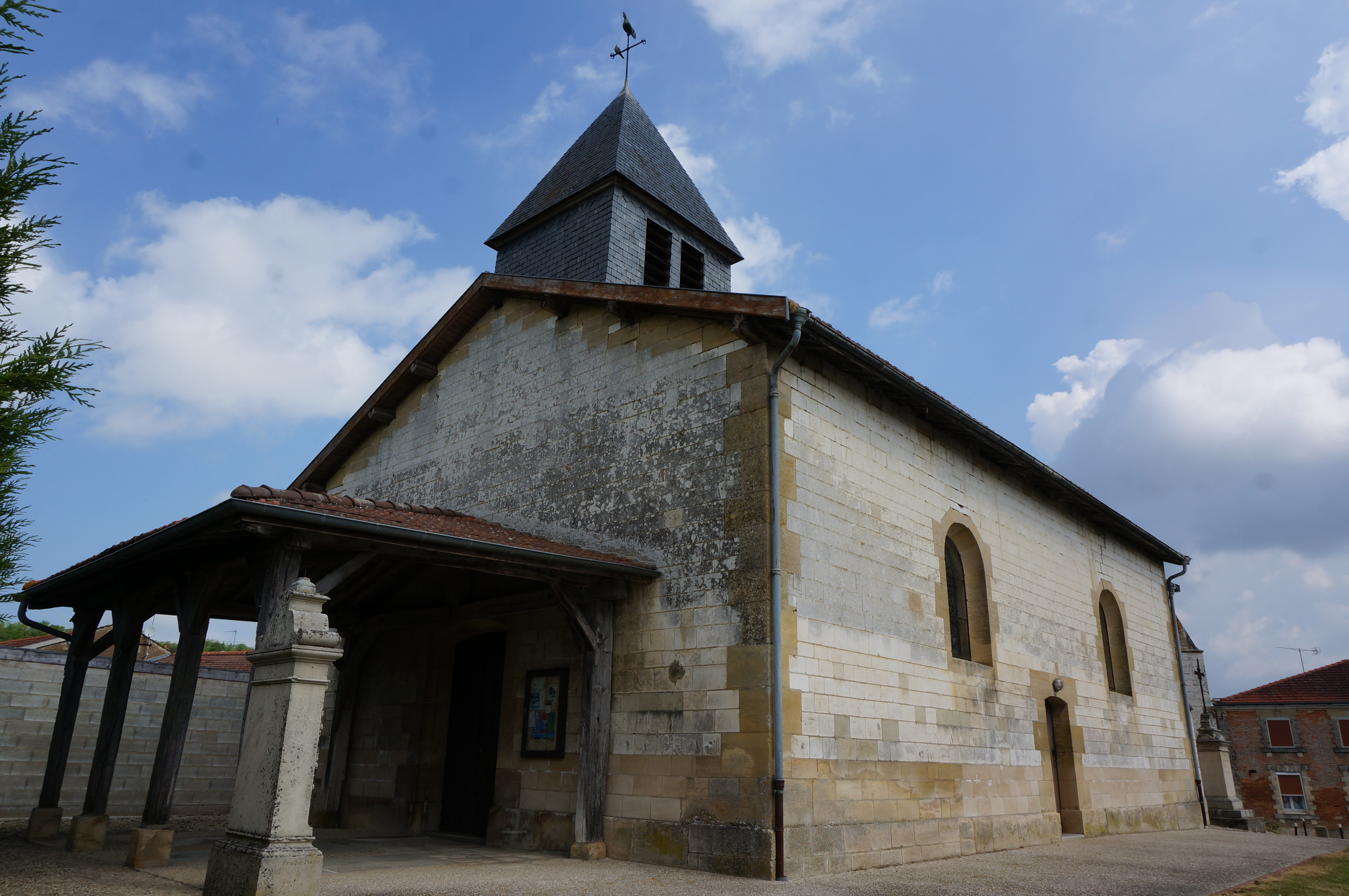 église à Couvrot.